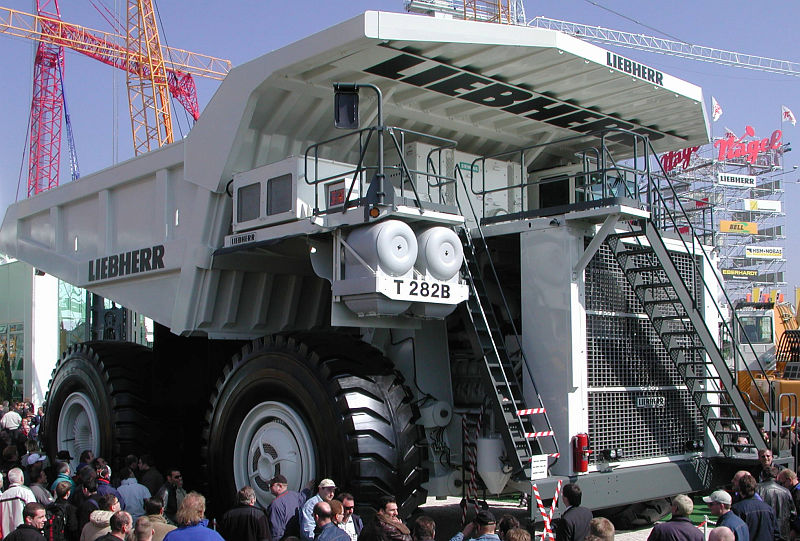 A Liebherr T 282B ultra-class haul truck at the 2005 Bauma International Trade Fair in Munich, Germany.